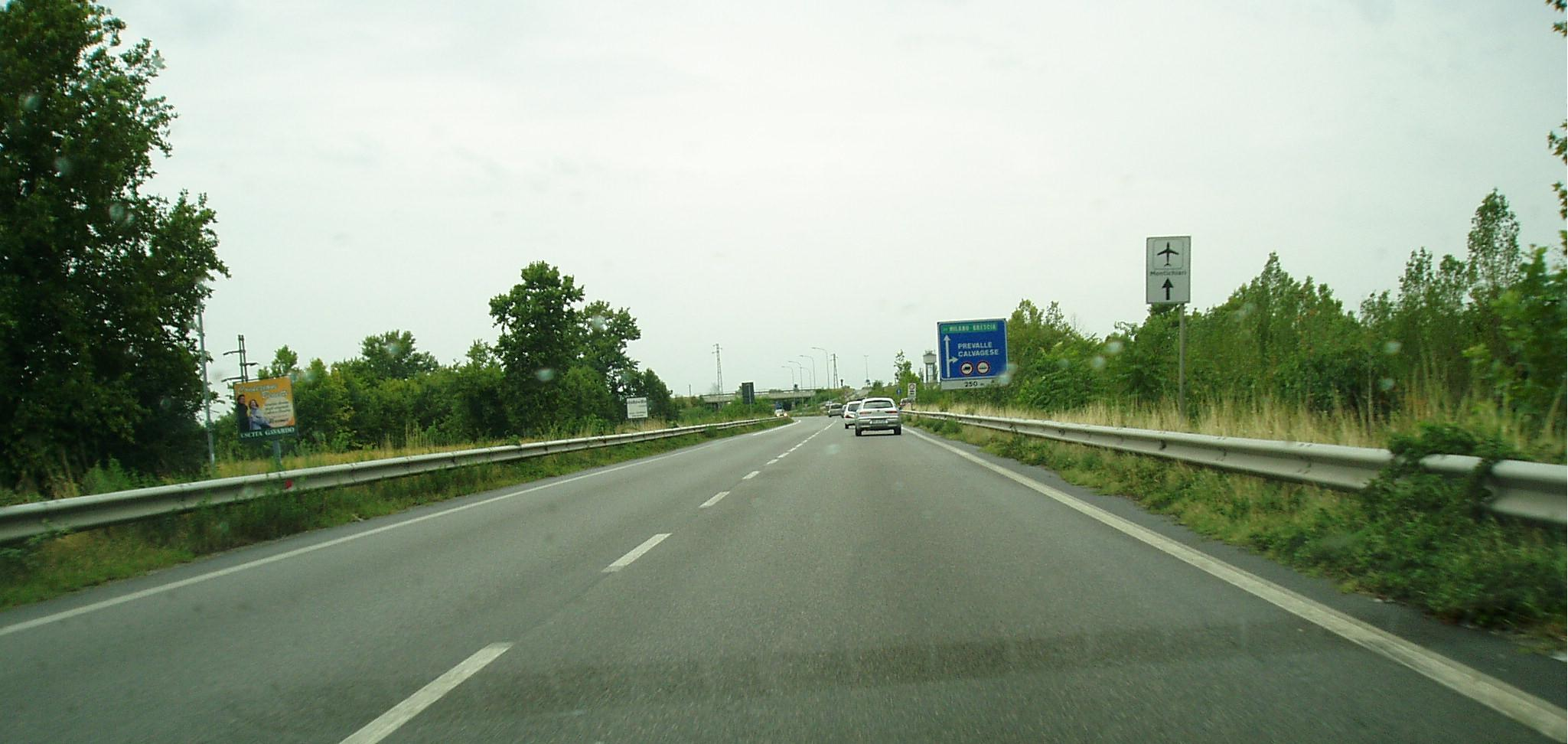 SS 45 bis near Prevalle